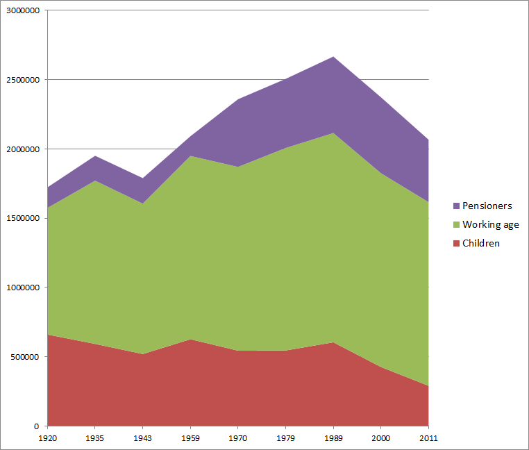 Latvia's population, (1920-2011). Based on data from English-language Wikipedia. The population size for 1943 is actually from 1941. This is because there was no data regarding regarding the size from 1943. Also, please note that the amount of time between each year in the diagramme is NOT the same, which gives a somewhat garbled image of the progression.